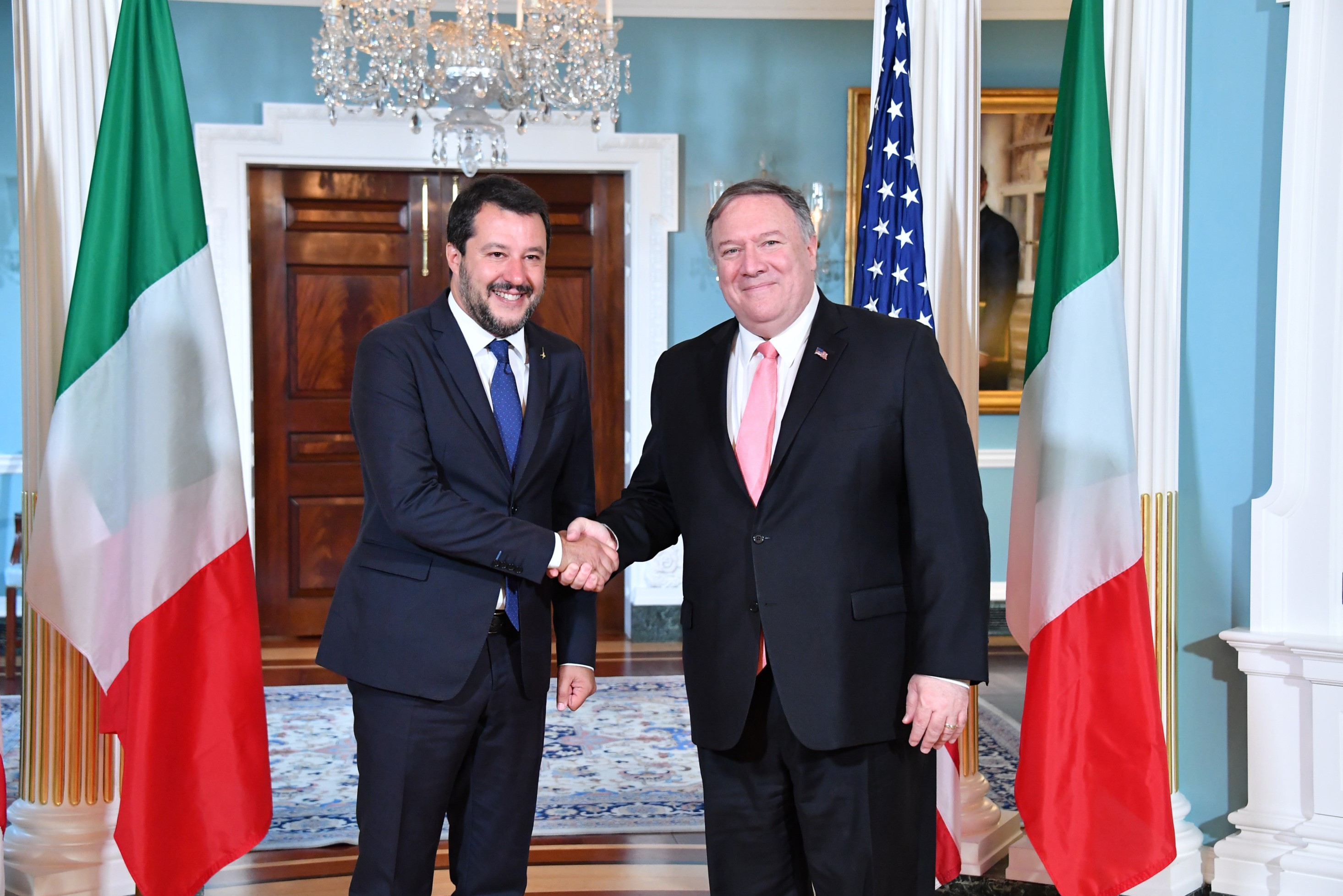 U.S. Secretary of State Michael R. Pompeo and Italian Deputy Prime Minister Matteo Salvini deliver statements to the press, at the Department of State in Washington, D.C., on June 17, 2019. [State Department photo by Michael Gross/ Public Domain]